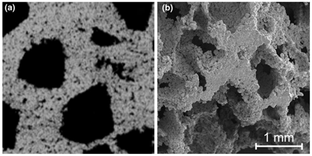 CT cross section (a) and SEM picture (b) of the Ti foam made with saccharose as a space holder, showing two types of pores Titanium foam made with saccharose as a space holder